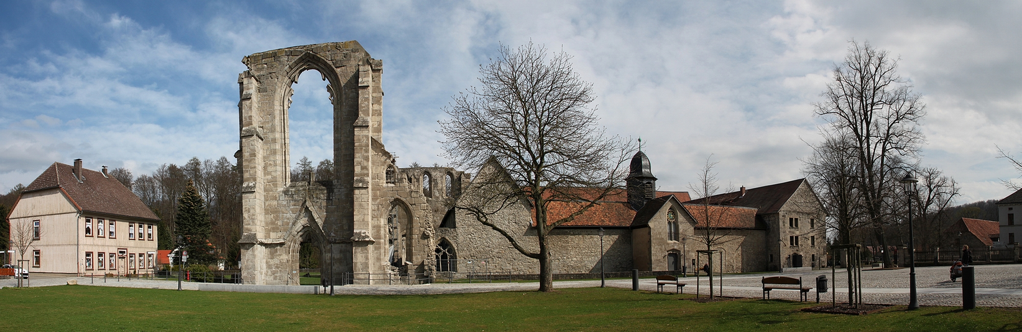 Walkenried Abbey, once one of the most celebrated Cistercian abbeys of Germany, located in the village of Walkenried in the district of Osterode in Lower Saxony.